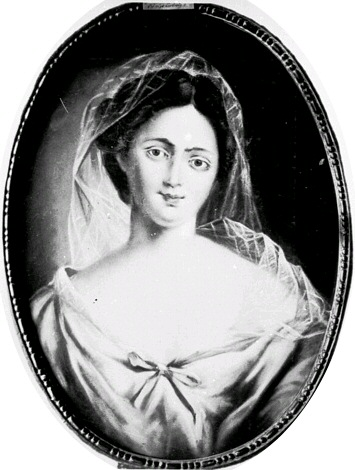 Augusta Wilhelmine of Hesse-Darmstadt, first wife of Maximilian I Joseph of Bavaria, mother of Ludwig I of Bavaria